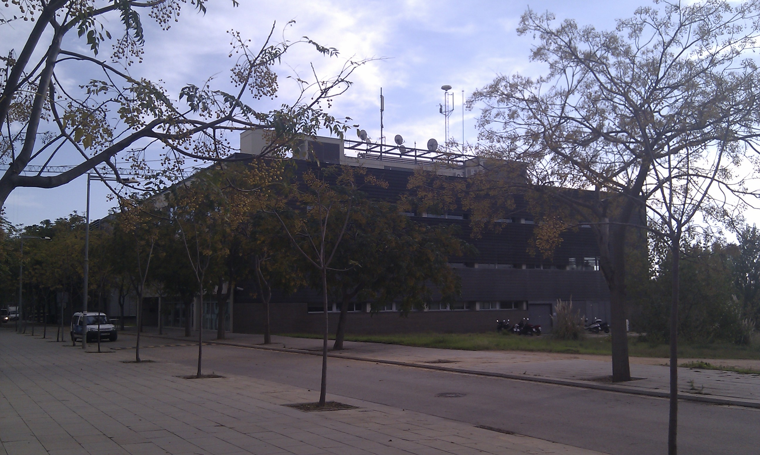 CTTC building